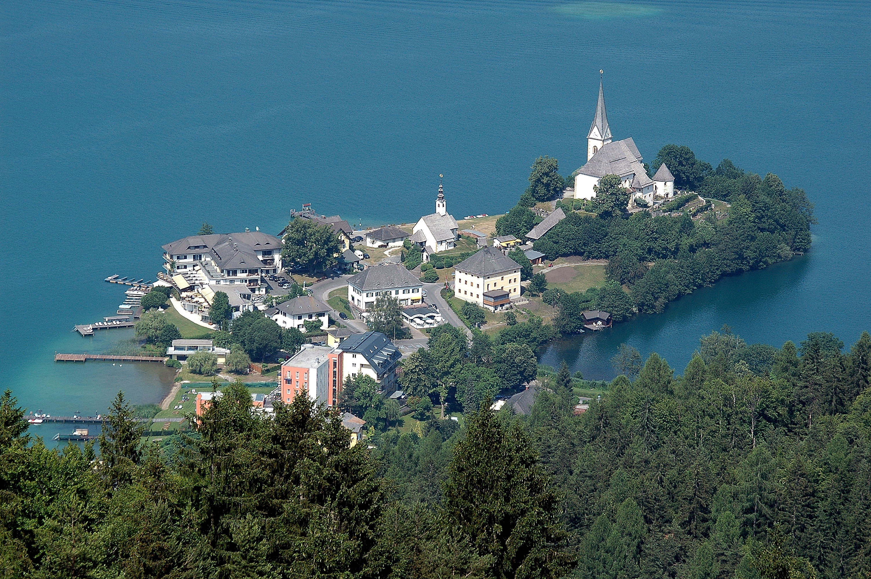 Peninsula of Maria Wörth, municipality Maria Wörth, district Klagenfurt Land, Carinthia, Austria, EU